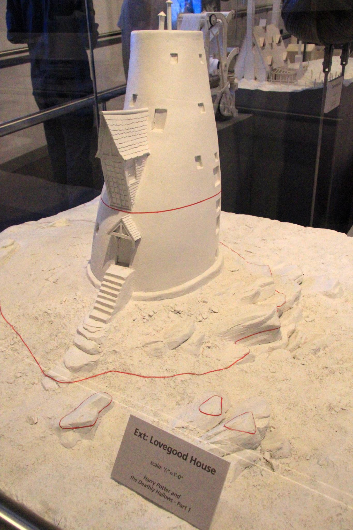 Warner Bros. Studio Tour London: The Making of Harry Potter.